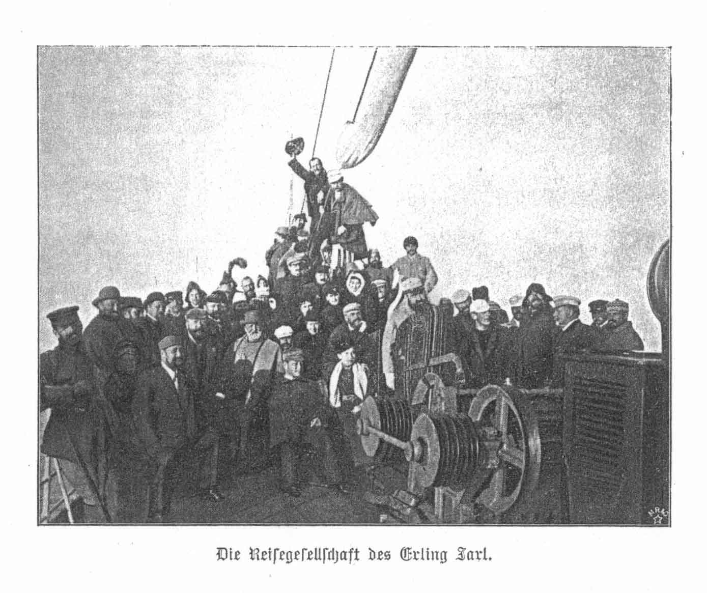 Photo of the thirty scientists that participated in the 1896 Earling Jarl expedition to Svalbard.